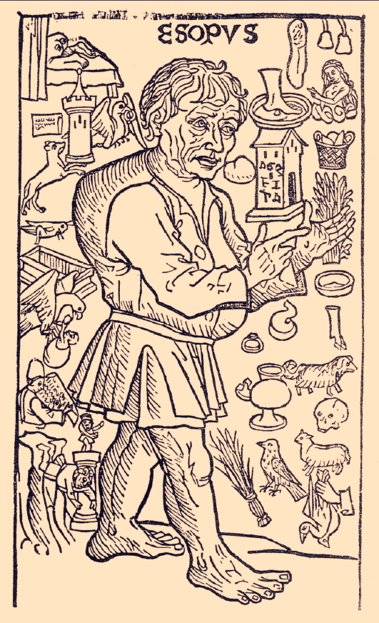 Frontispiece woodcut from the 1489 Spanish edition of Aesop's Fables (Fabulas de Esopo) depicts Aesop surrounded by images and events from the Life of Aesop by Planudes.